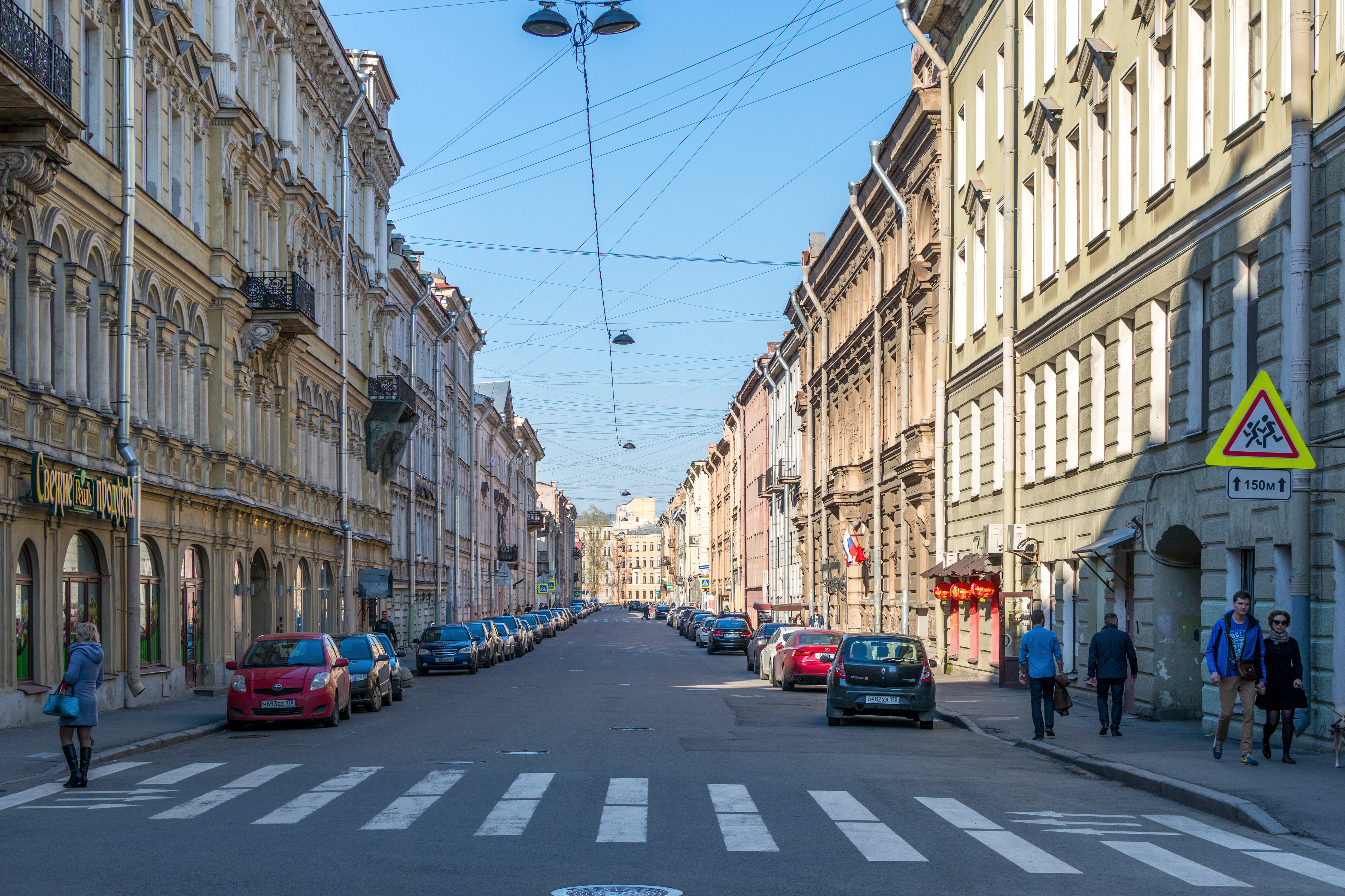 Grazhdanskaya Street in Saint Petersburg